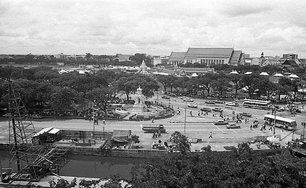 Sanam Luang in Bangkok's old town (Phra Nakhon), c. 1974. Thammasat University campus in the background.